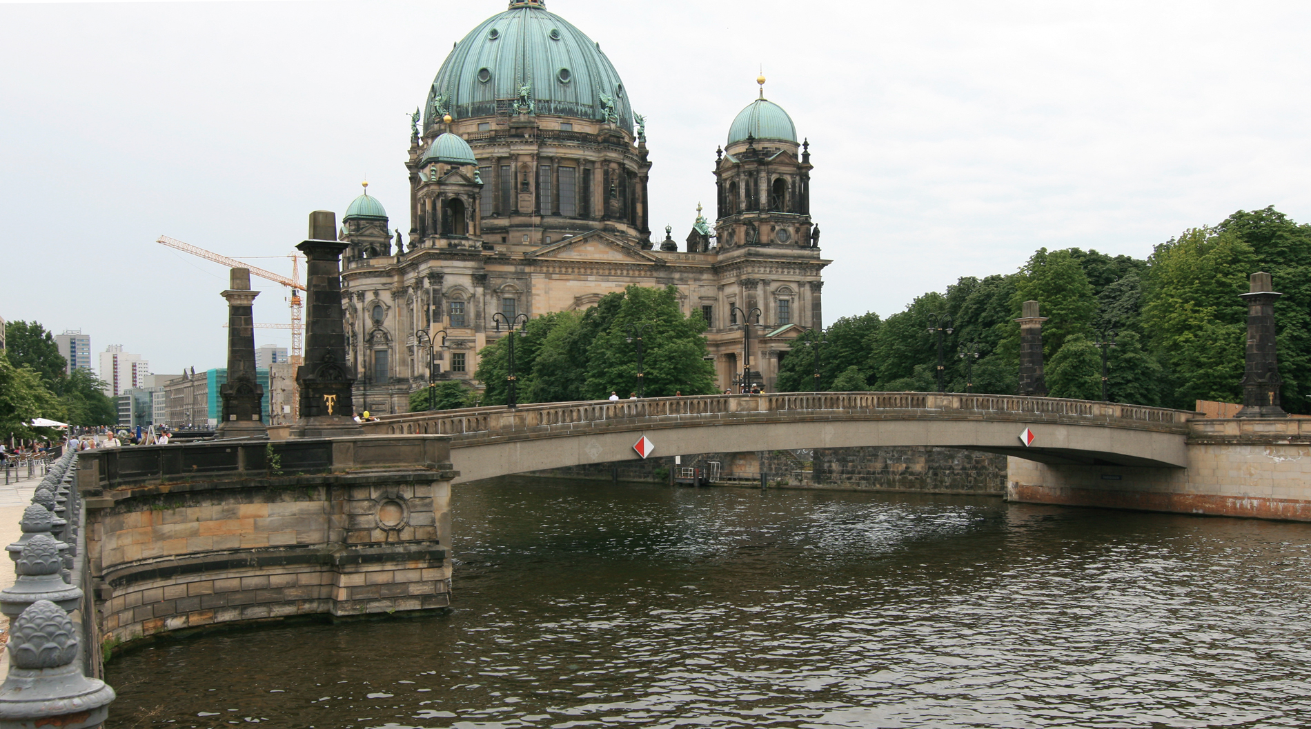 Friedrichsbrücke across the Spree in central Berlin. Berlin cathedral in the background